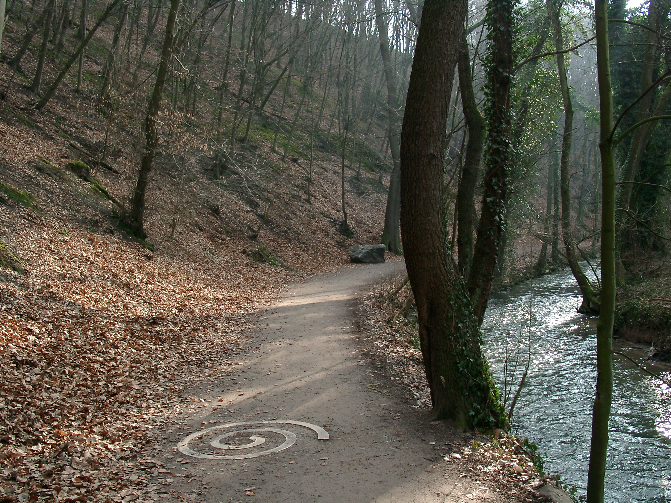 A path through the forest and a creek (the Düssel river) through the Neanderthal Valley in Mettmann and Erkrath (Germany); "Neandertal" nature reserve; sculpture "CALX" (spirals, two parts) by Klaus Simon on the way